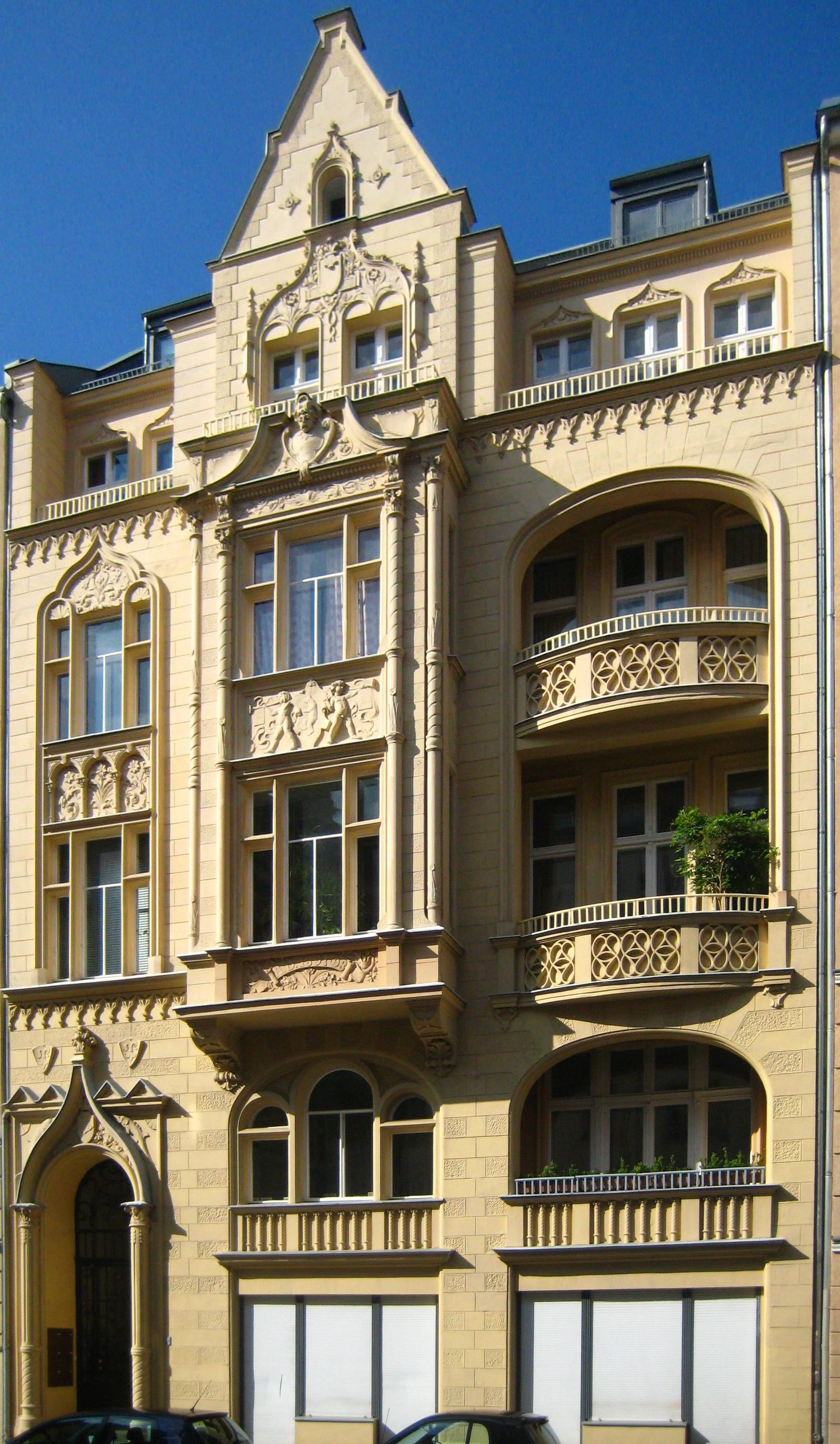 Apartment building at Inselstraße No. 12 in Berlin-Mitte, built 1897 to 1898. The richly ornamented building has a side wing and a rear part. Its asymmetric facade combines elements of Gothic Revival architecture with Art Nouveau ornaments. The spire light topping the fourth story is especially noticeable. The influcence of Art Nouveau can also been seen at the door grille and at the richly decorated interior staircase. The building has been designated as a historic landmark.